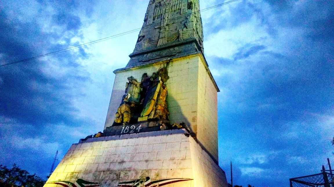 Monument of the federation of Chiapas with Mexico, was detroyed in the 2017 Earthquake in Tuxtla Gutierrez